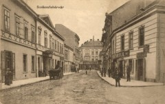 Székesfehérvár - Hotel Fekete Sas